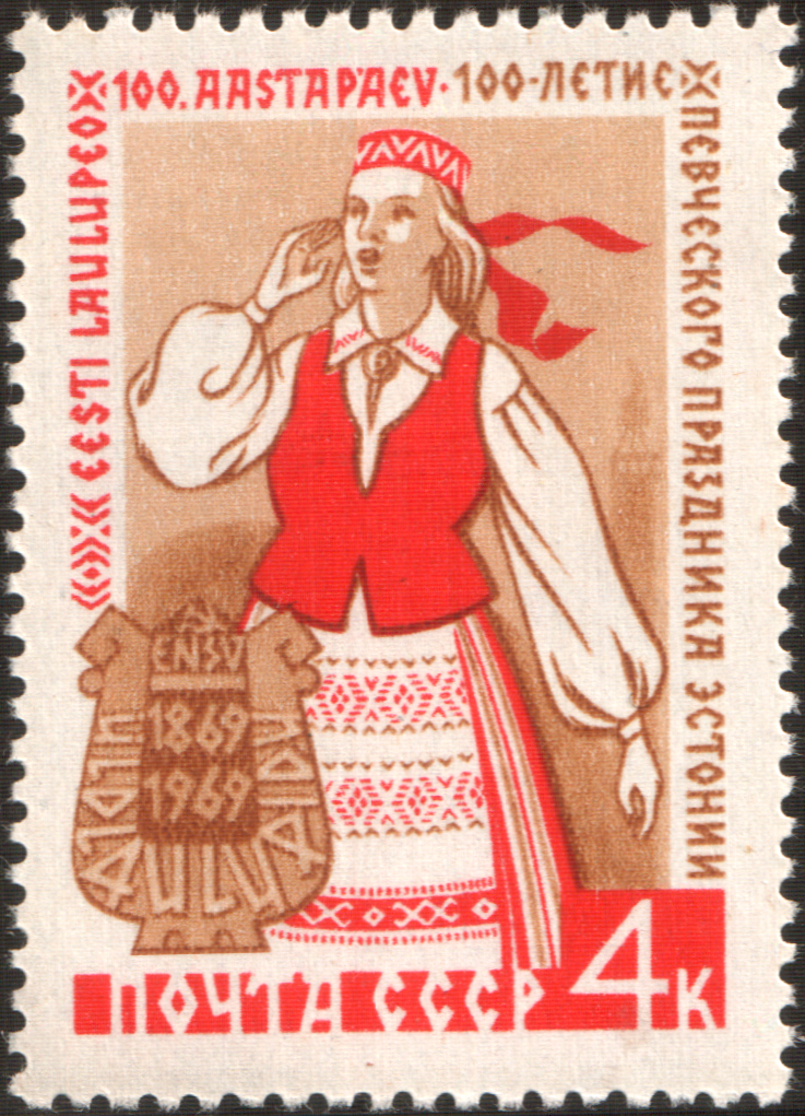 USSR stampː Estonian Singer and Festival Emblem. Seriesː Centenary of Estonian Song Festival